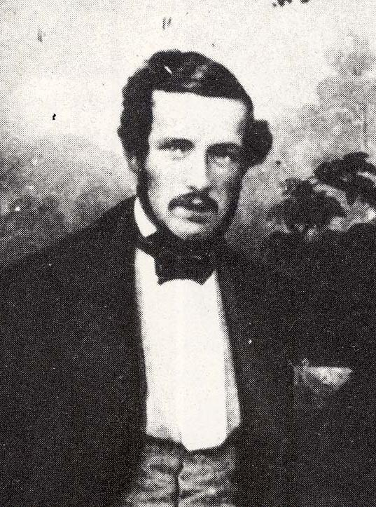 Prince Gustav of Sweden and Norway, Duke of Upland